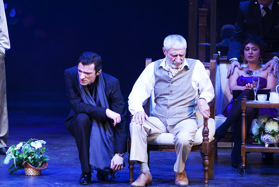 Eukhena Balboa Givi Berikashvili and his son Zurab performing on the stage of Tbilisi's Marjanishvili Theatre in Levan Tsuladze's production of Eujenia Balboa, based on Los árboles mueren de pie by Alejandro Casona (2010).